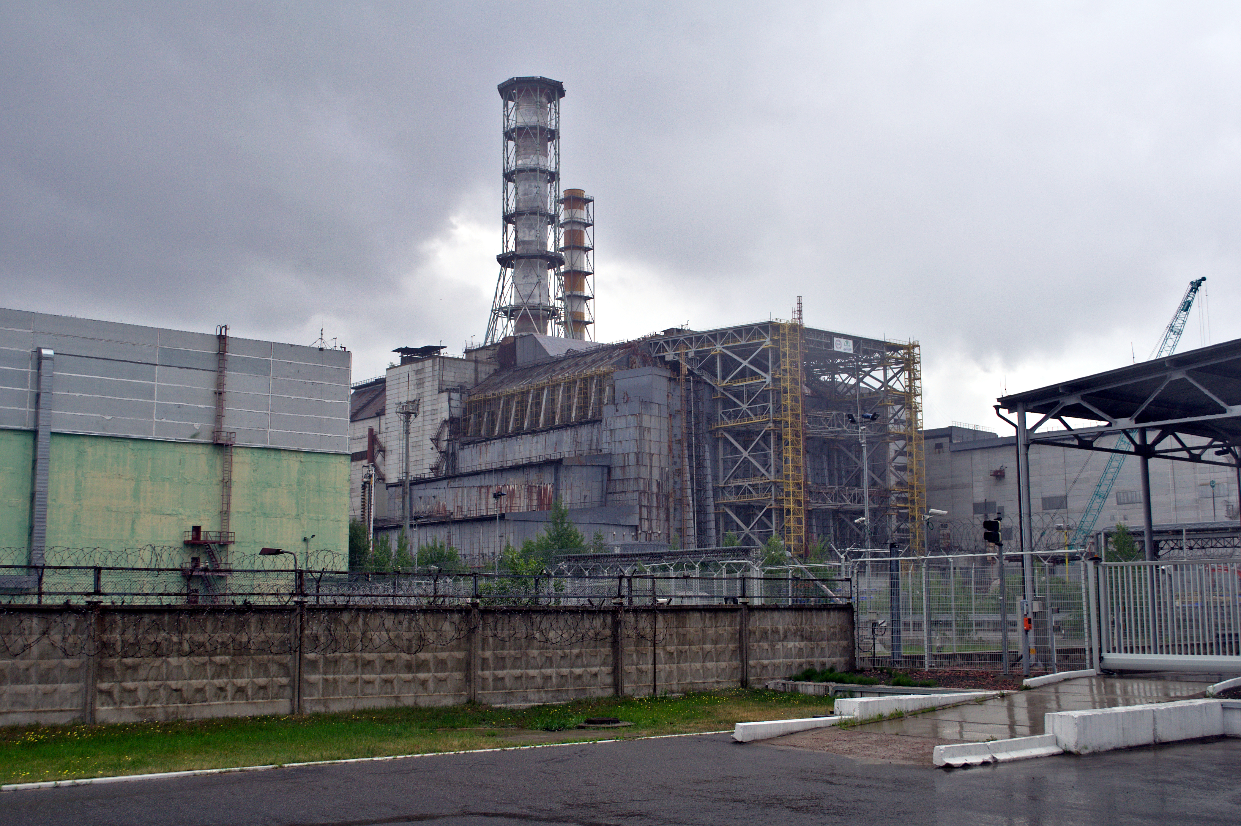 Reactor 4 in Chernobyl Nuclear Power Plant